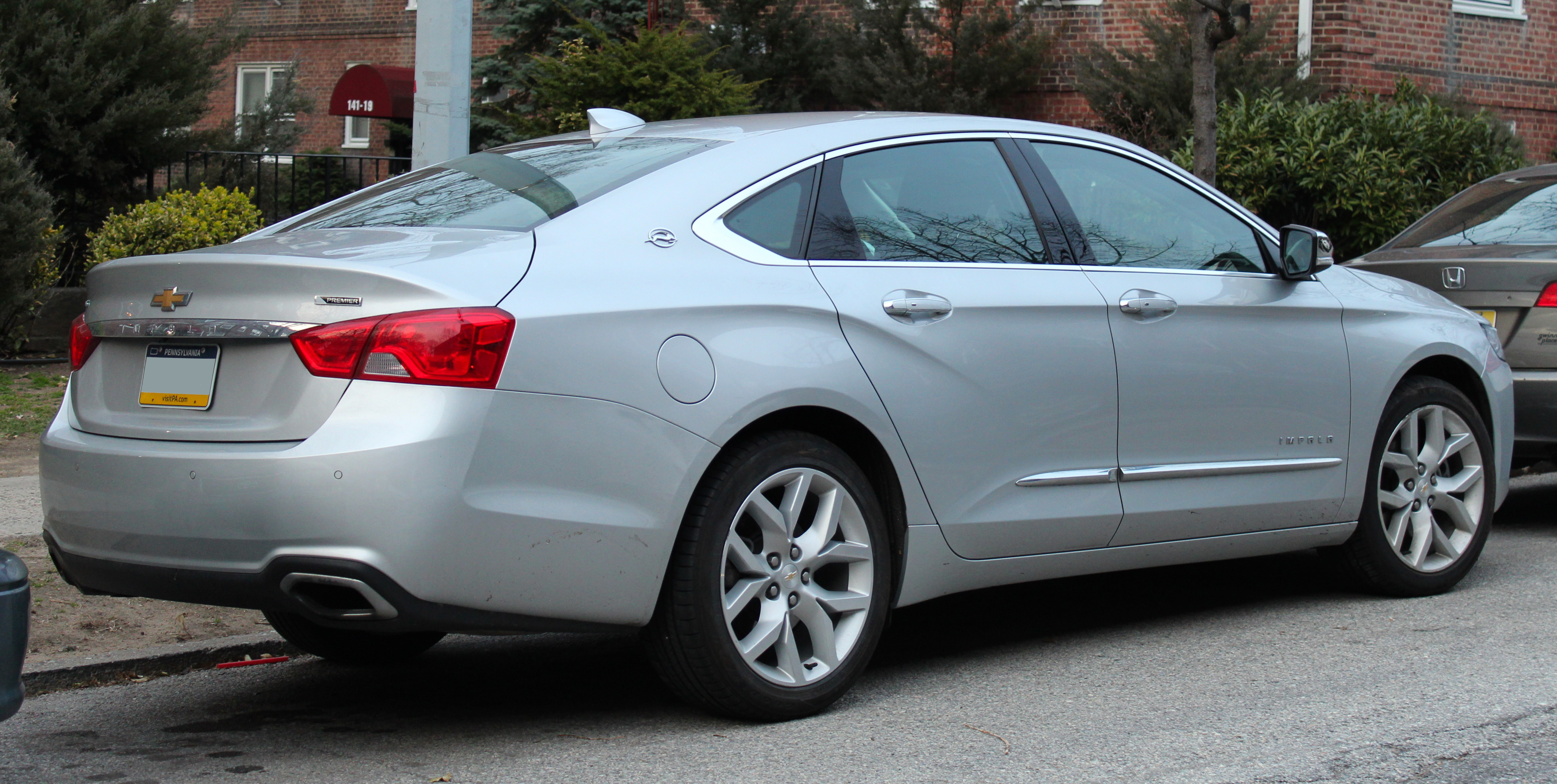 A 2018 Chevrolet Impala Premier photographed in Kew Garden Hills, Queens, New York, USA